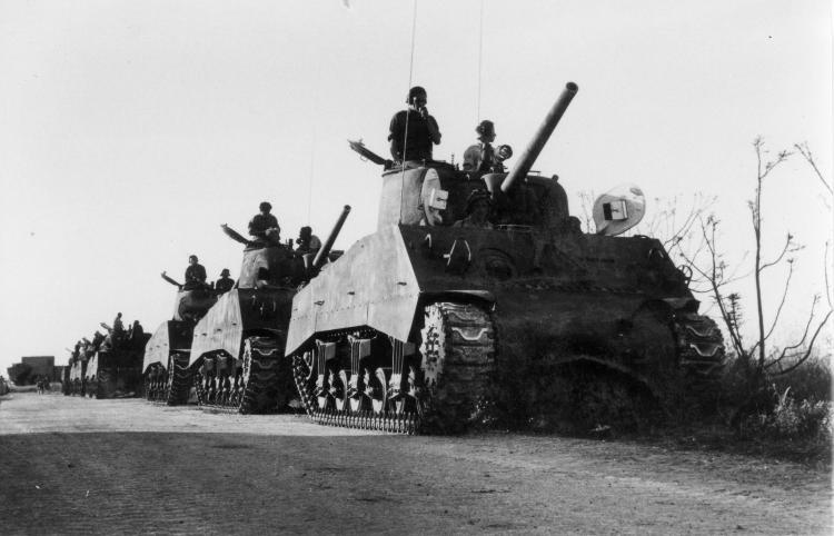 From Palmach archive. Probably 8th Armoured Brigade. Possibly 7th.